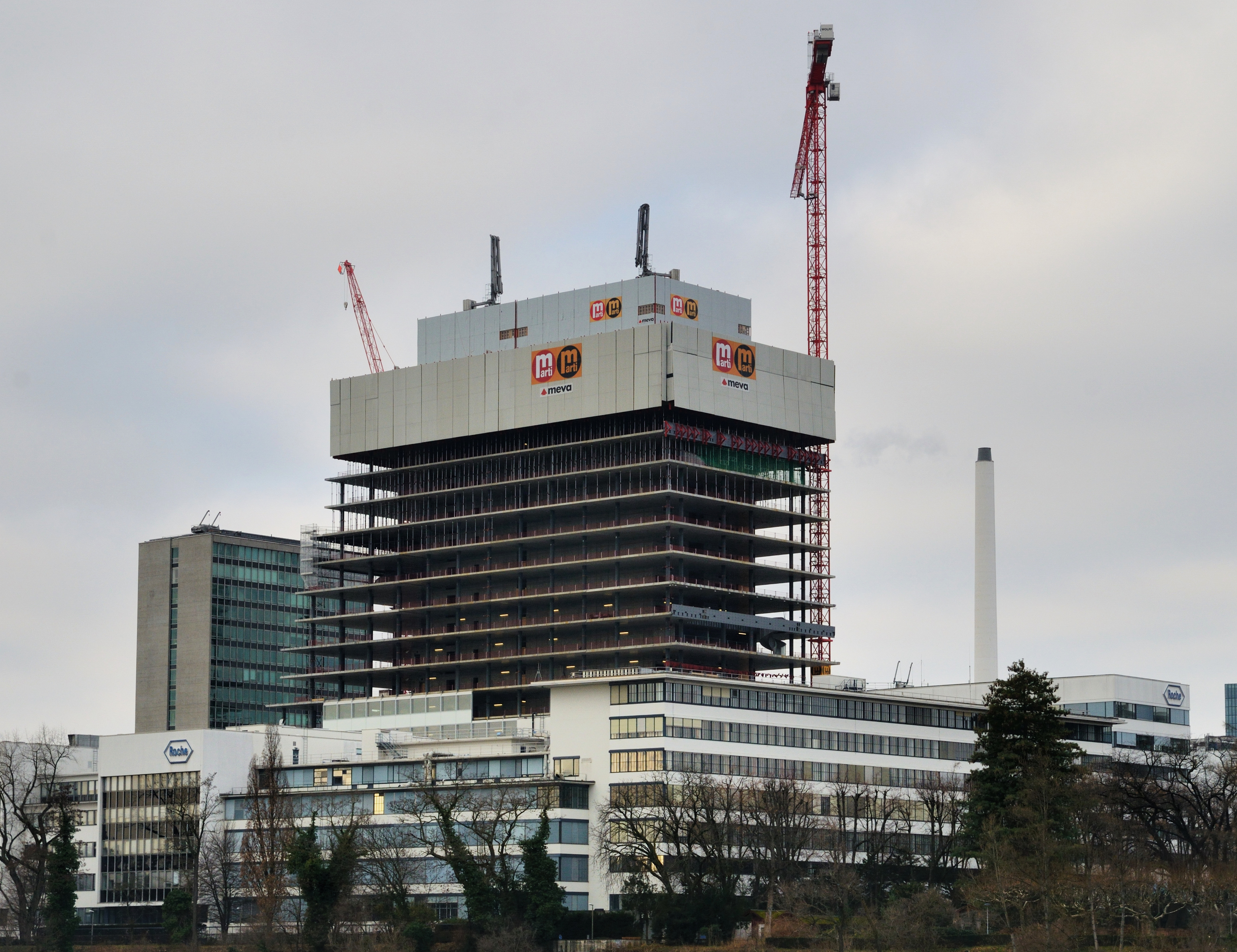 Basel: Roche Tower during construction at 12th january 2014